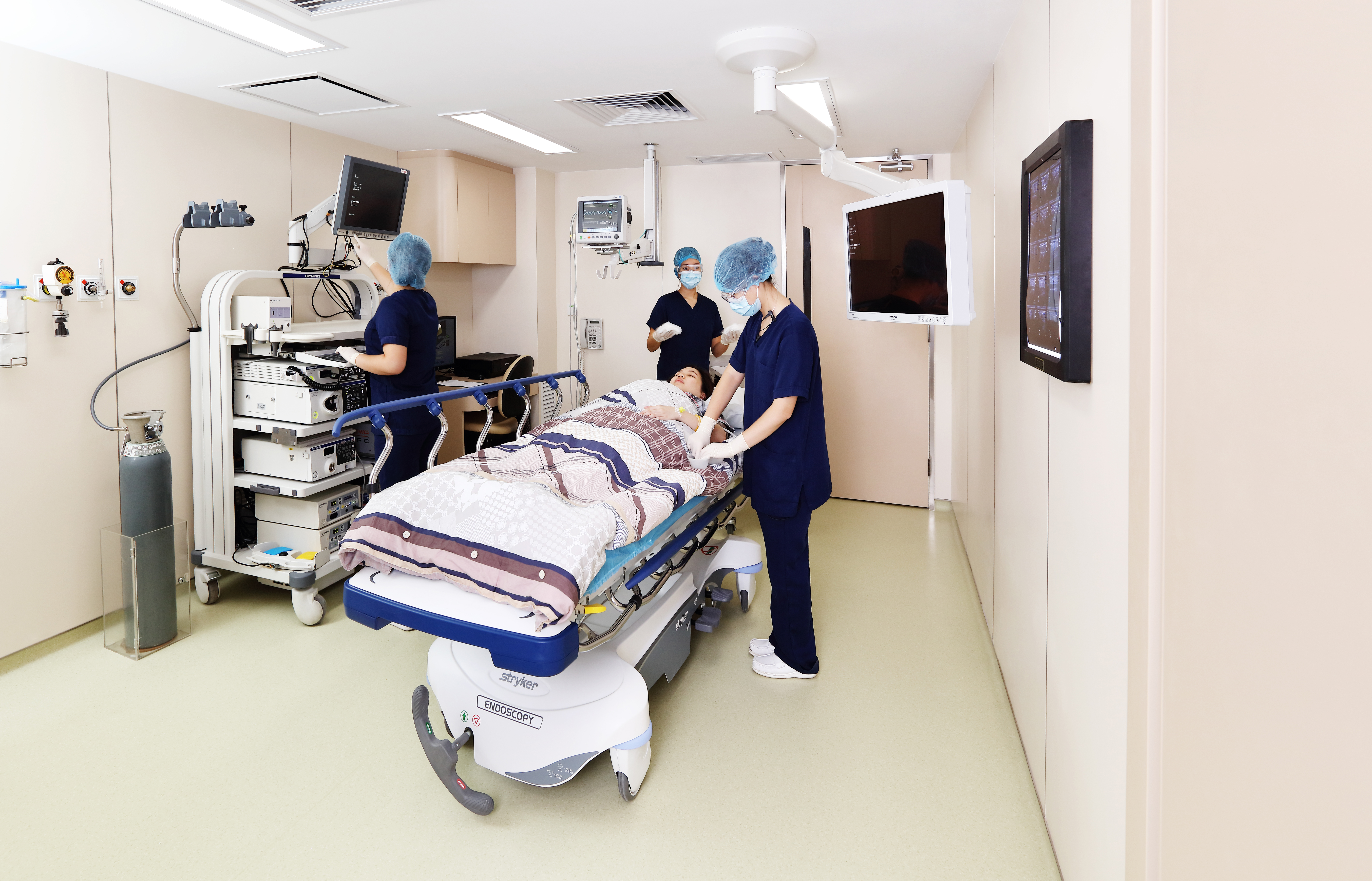 The Specialists(Endoscopy)